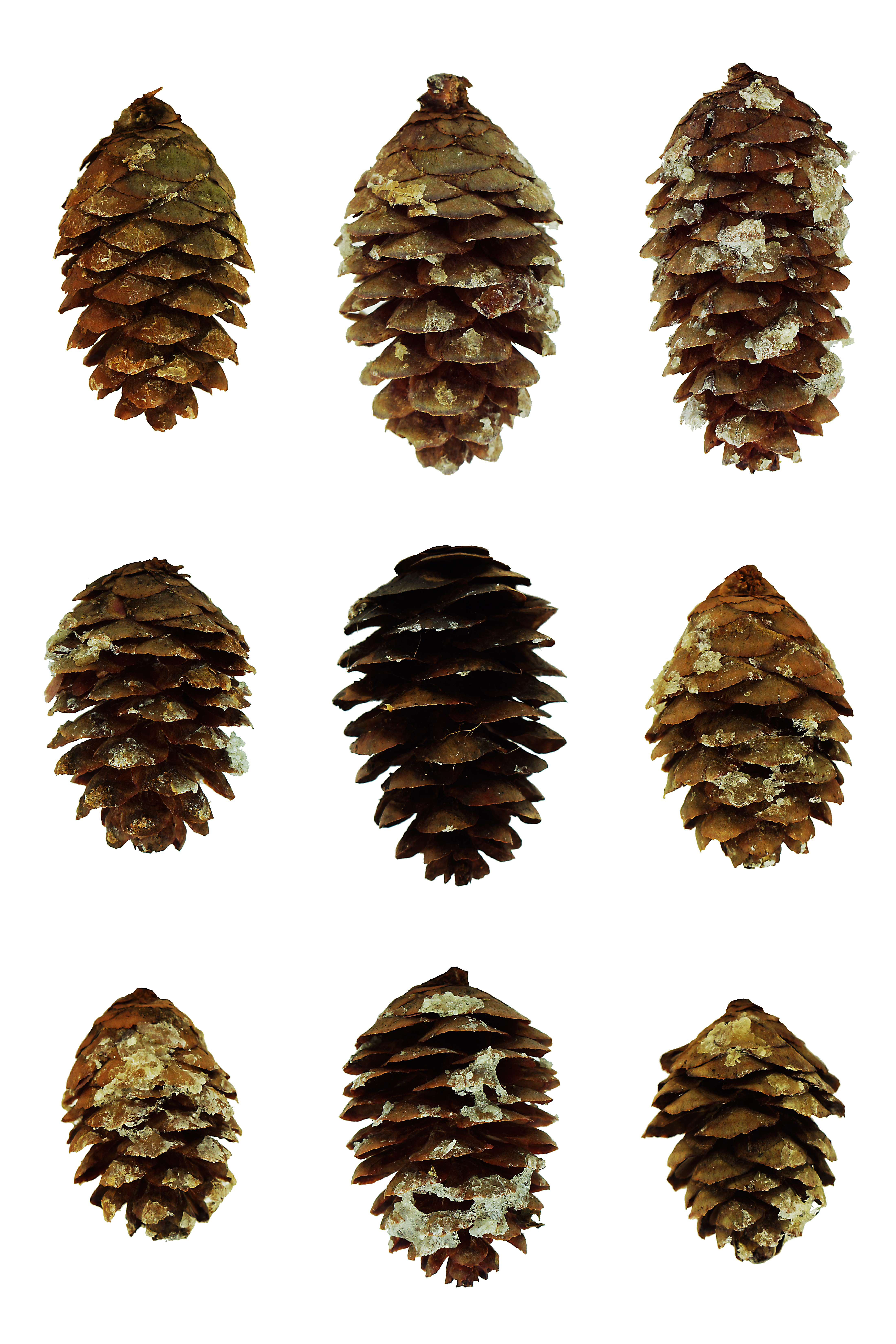 Nine red spruce (picea rubens) cones from Pisgah National Forest. This image comprises nine individual USFWS images of cones.